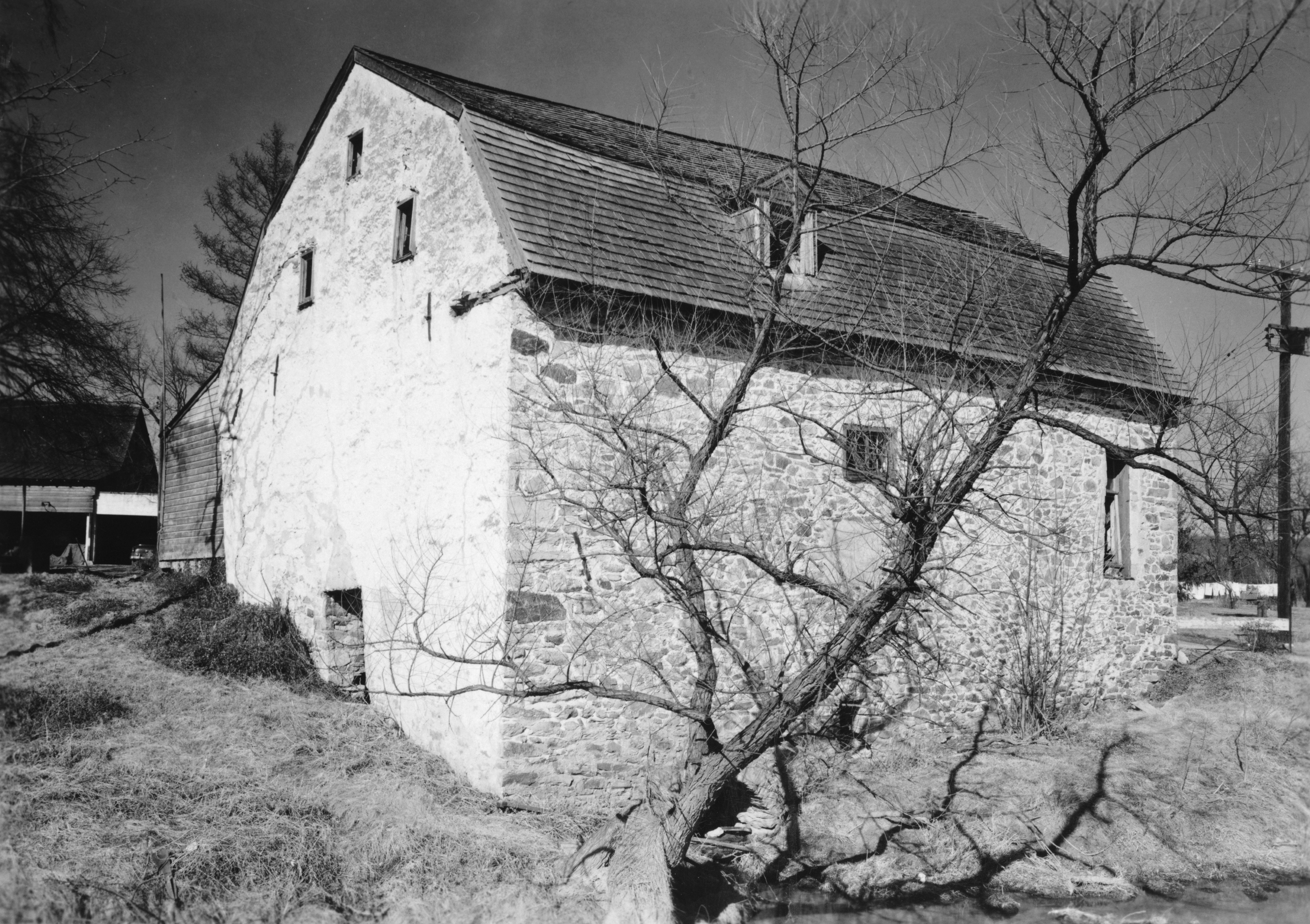 Roger Hunt Mill, or Hunt - Pollack Mill — on Race Street, Downingtown, Chester County, Pennsylvania. On the NRHP since January 4, 1980. A Historic American Buildings Survey—HABS image.